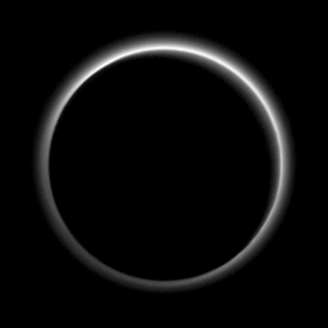 Original Caption: Pluto sends a breathtaking farewell to New Horizons. Backlit by the sun, Pluto’s atmosphere rings its silhouette like a luminous halo in this image taken by NASA’s New Horizons spacecraft around midnight EDT on July 15. This global portrait of the atmosphere was captured when the spacecraft was about 1.25 million miles (2 million kilometers) from Pluto and shows structures as small as 12 miles across. The image, delivered to Earth on July 23, is displayed with north at the top of the frame.